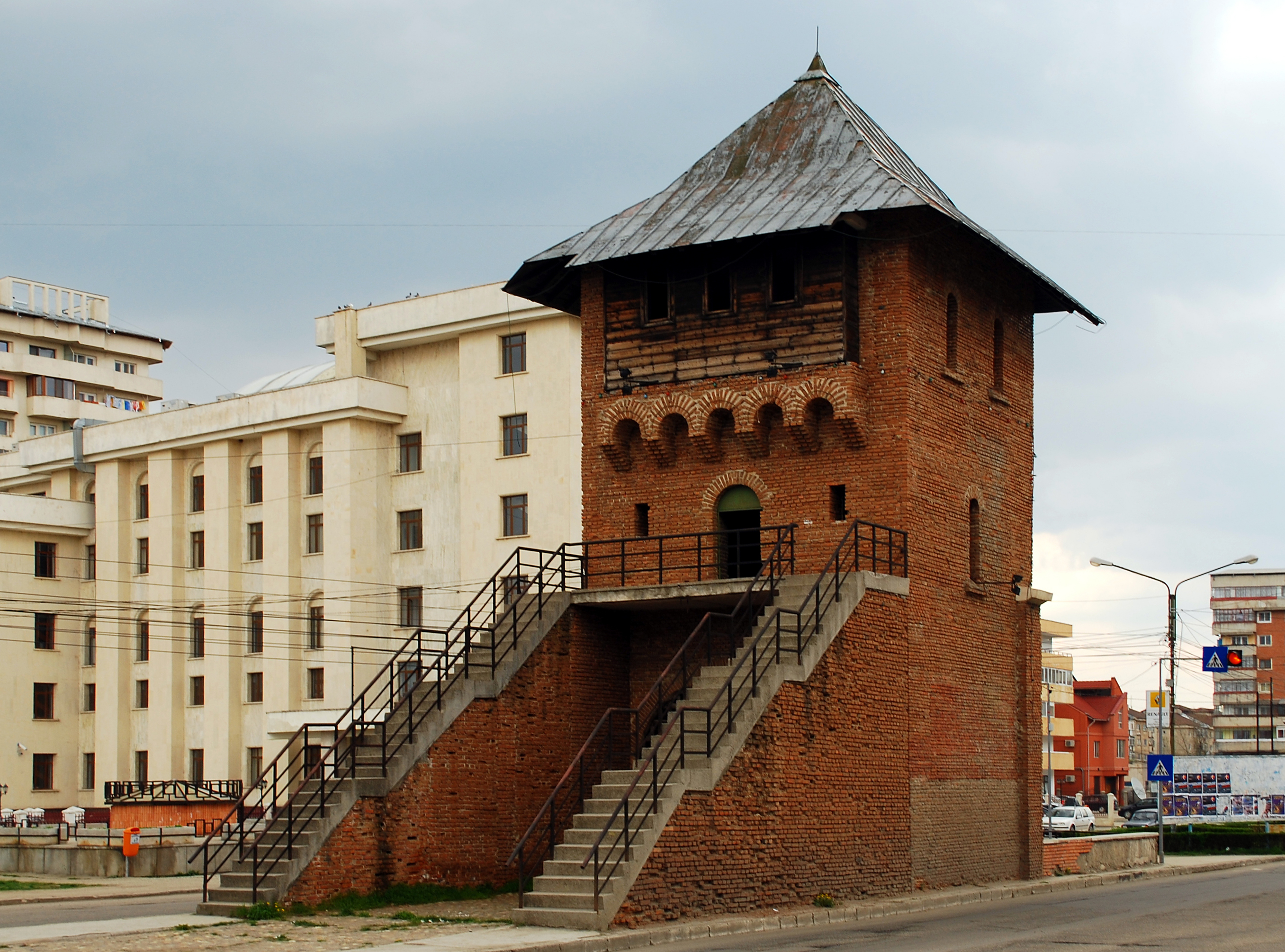 The Buzău and Brăila Gate, in Târgovişte, Romania